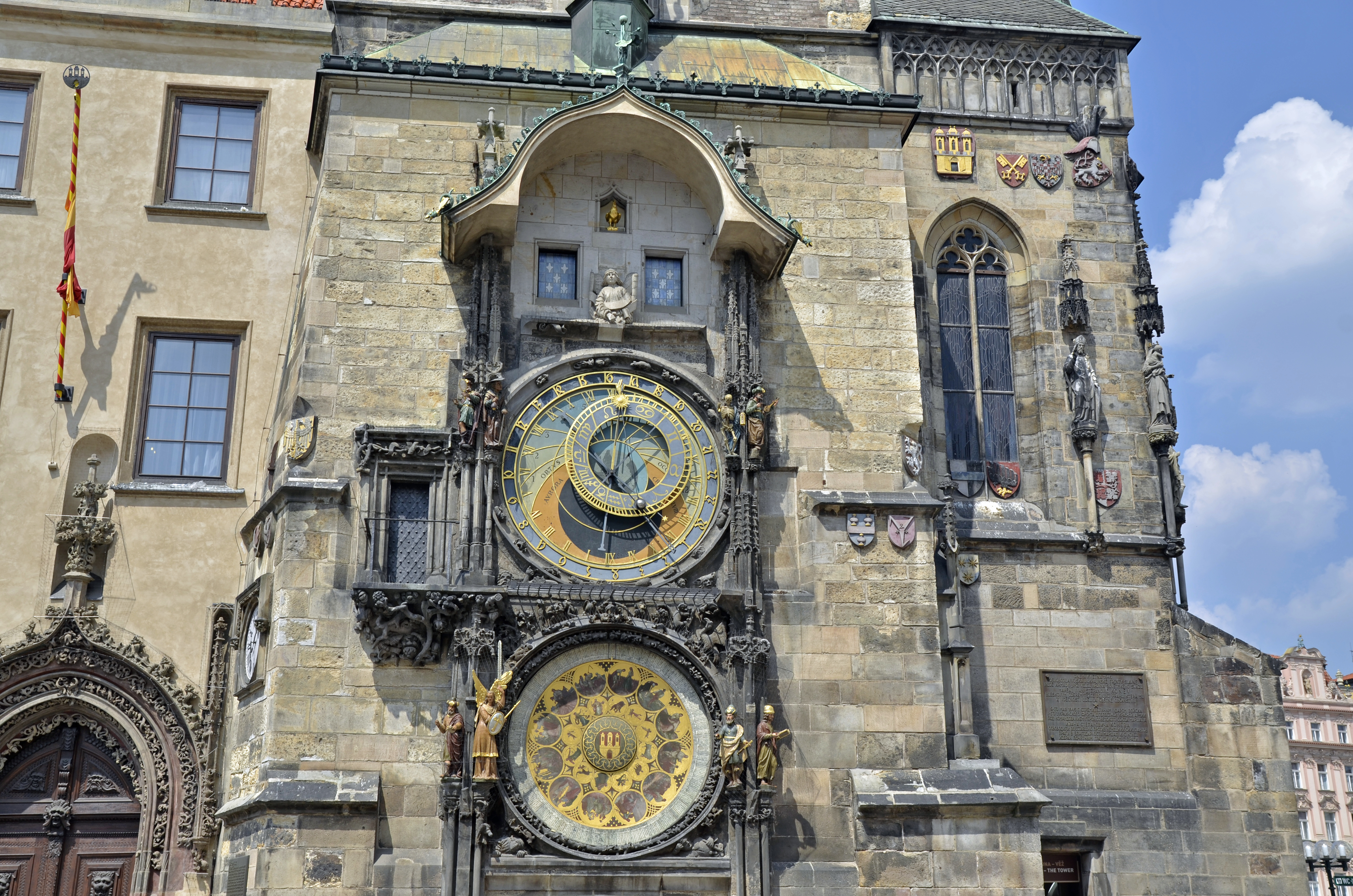 Prague (Praha, CZ) - Old Town Square (Staroměstské náměstí) (Clock Tower)